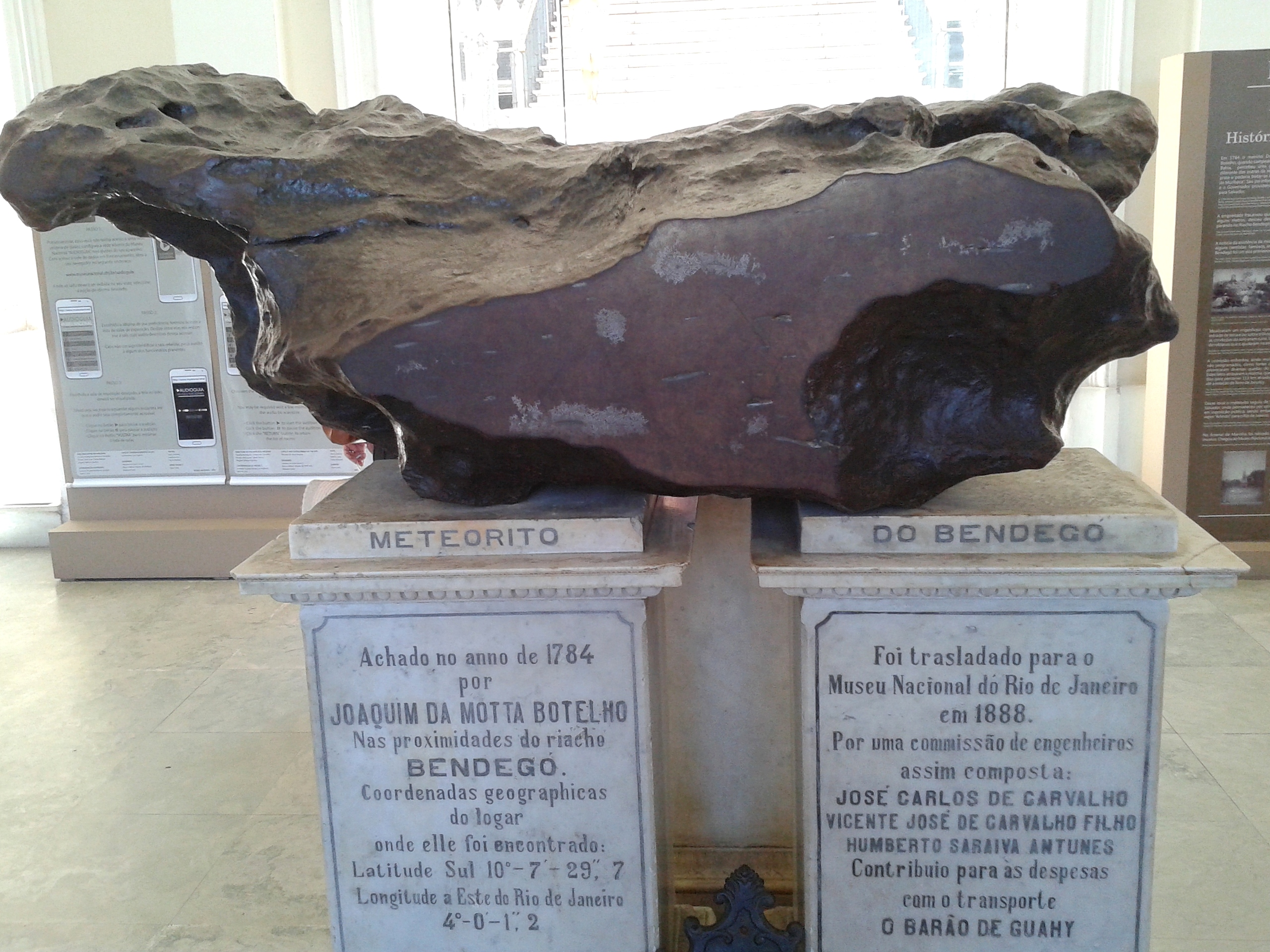 Found in Bahia in 1784, Bendegó is the largest siderite discovered in Brazil, being more than two meters in length and weighing 5.36 tons. It is constituted by a compact mass of iron and nickel. It is believed that the meteorite fell on Earth 100,000 years ago.